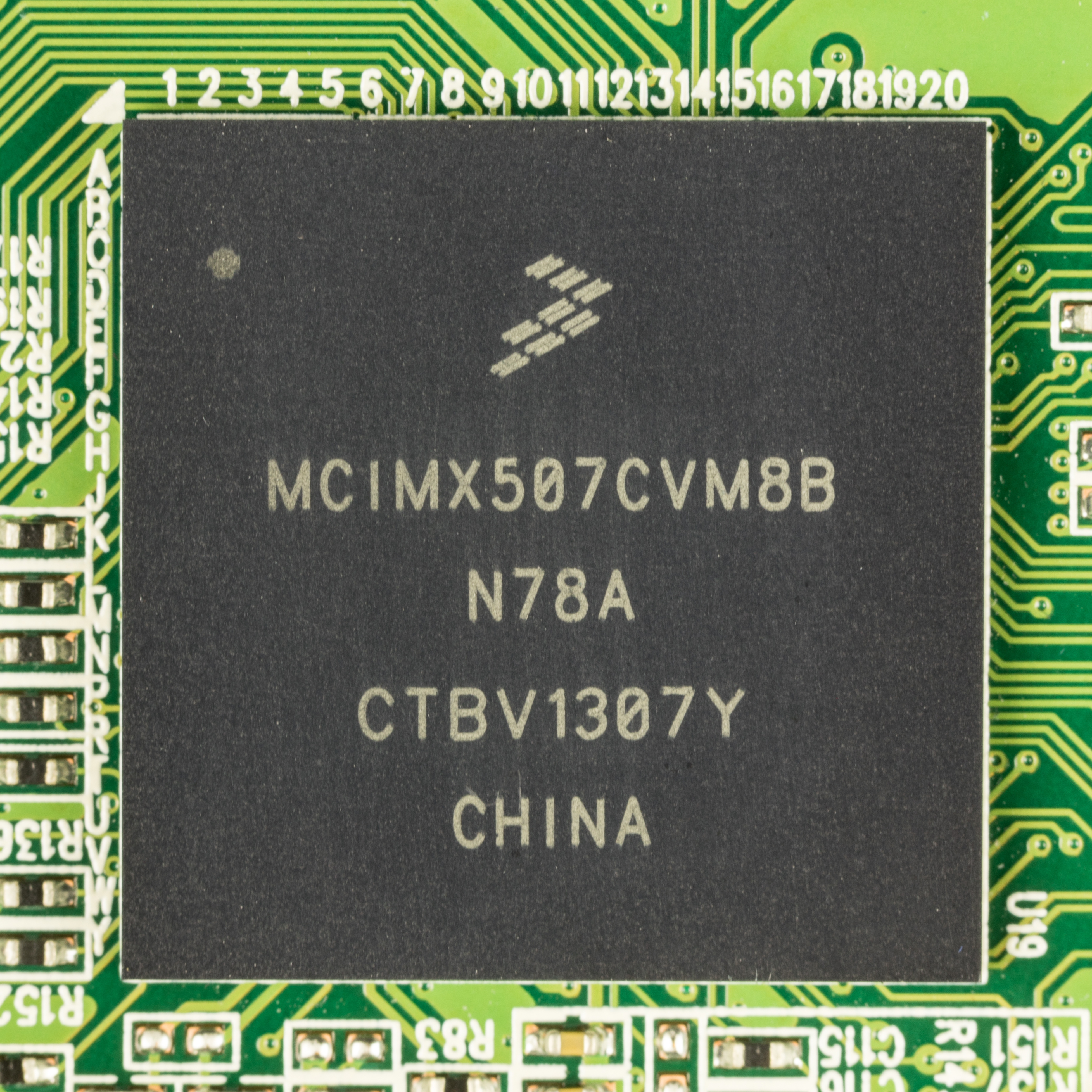 Tolino shine - controller board - Freescale MCIMX507CVM8B - i.MX50 Applications Processors for Consumer Products. Package: 17 x 17 mm, 0.8 mm pitch BGA